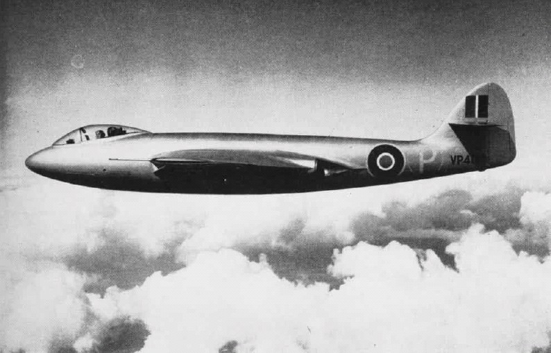 The prototype of the Hawker P.1040 (serial number VP401) in flight in 1947/48. It made its first flight on 2 September 1947 and was the prototype of the highly sucessful Hawker Sea Hawk.